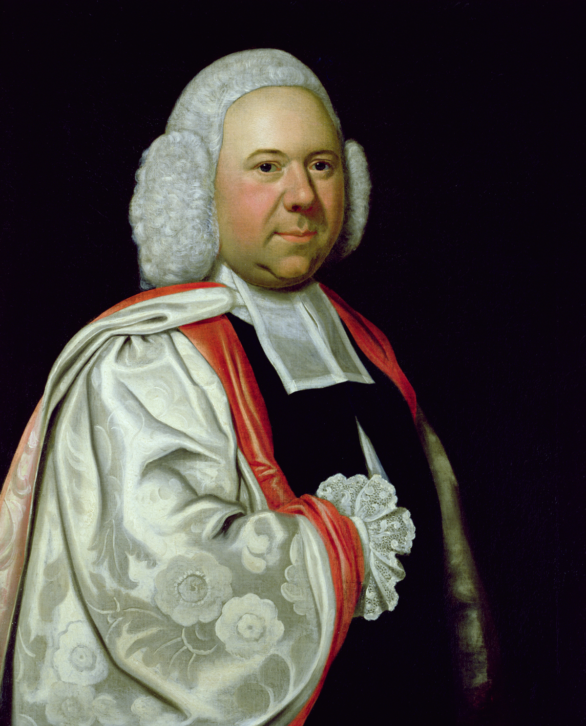 Oil Painting